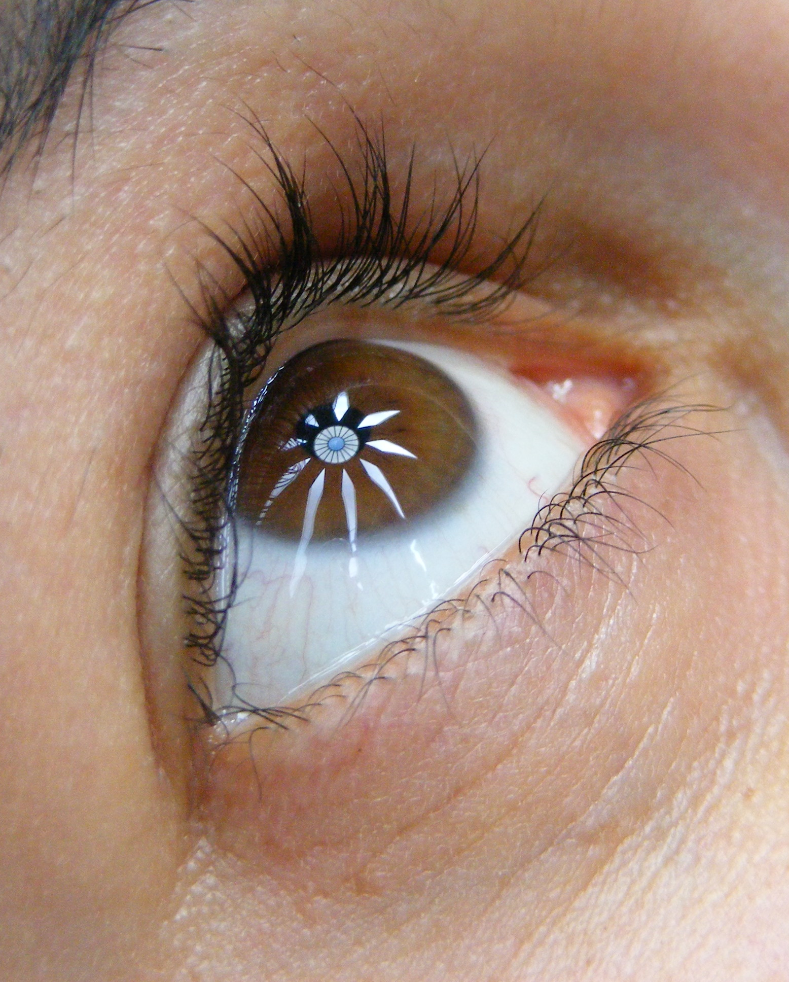 Reflection in eye. Looking up at the ceiling of the Bahá'í Centre of Learning, Hobart, Tasmania.